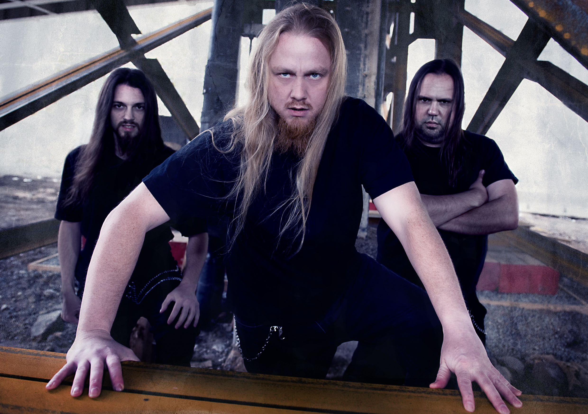 Solace of Requiem Promotional Photo 2013